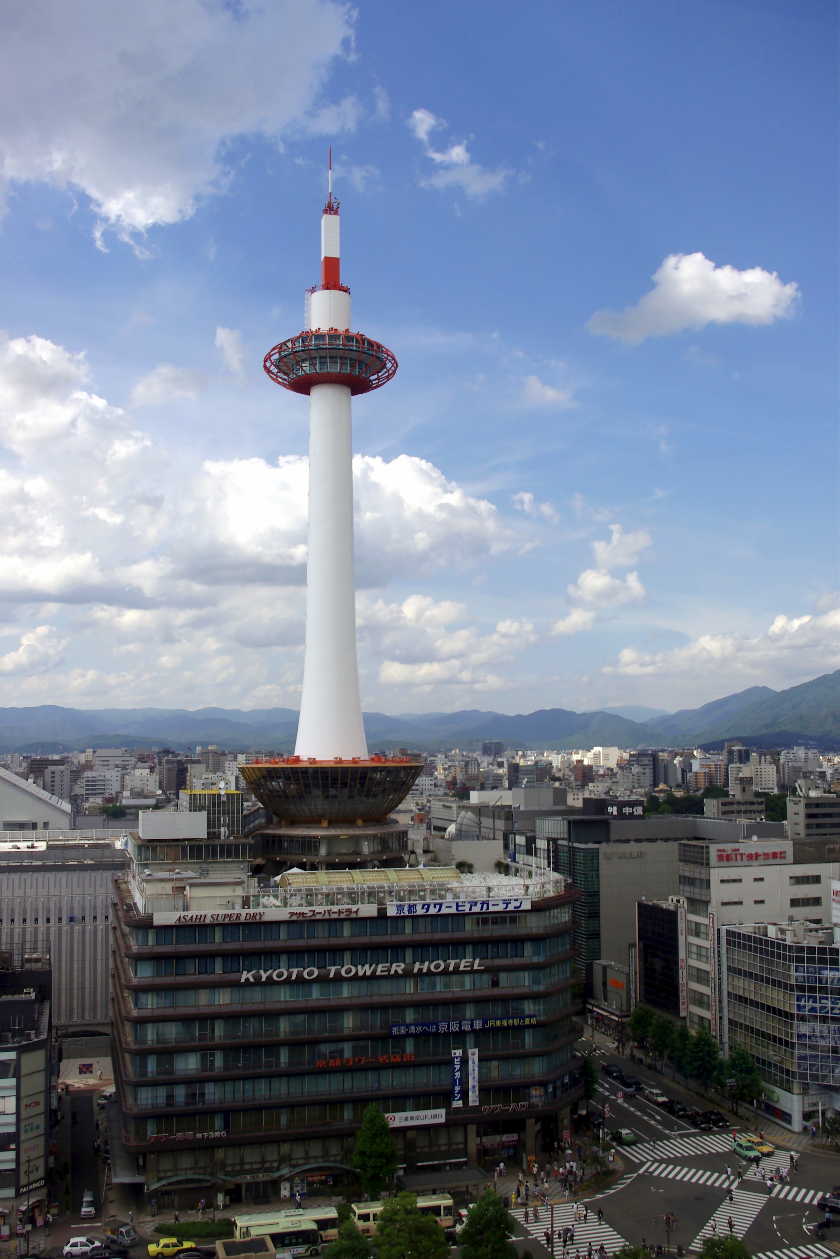 Kyoto Tower seen from Kyoto Station